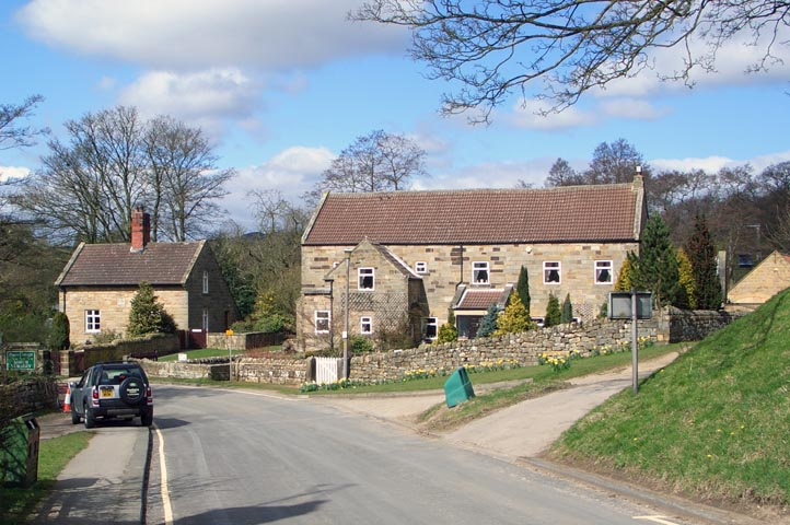 Former Water Mill, Lealholm, North Yorkshire